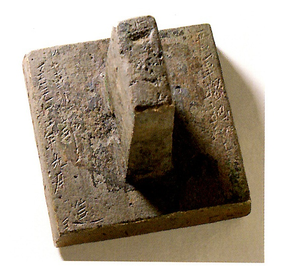 The stamp of a Mongolian army